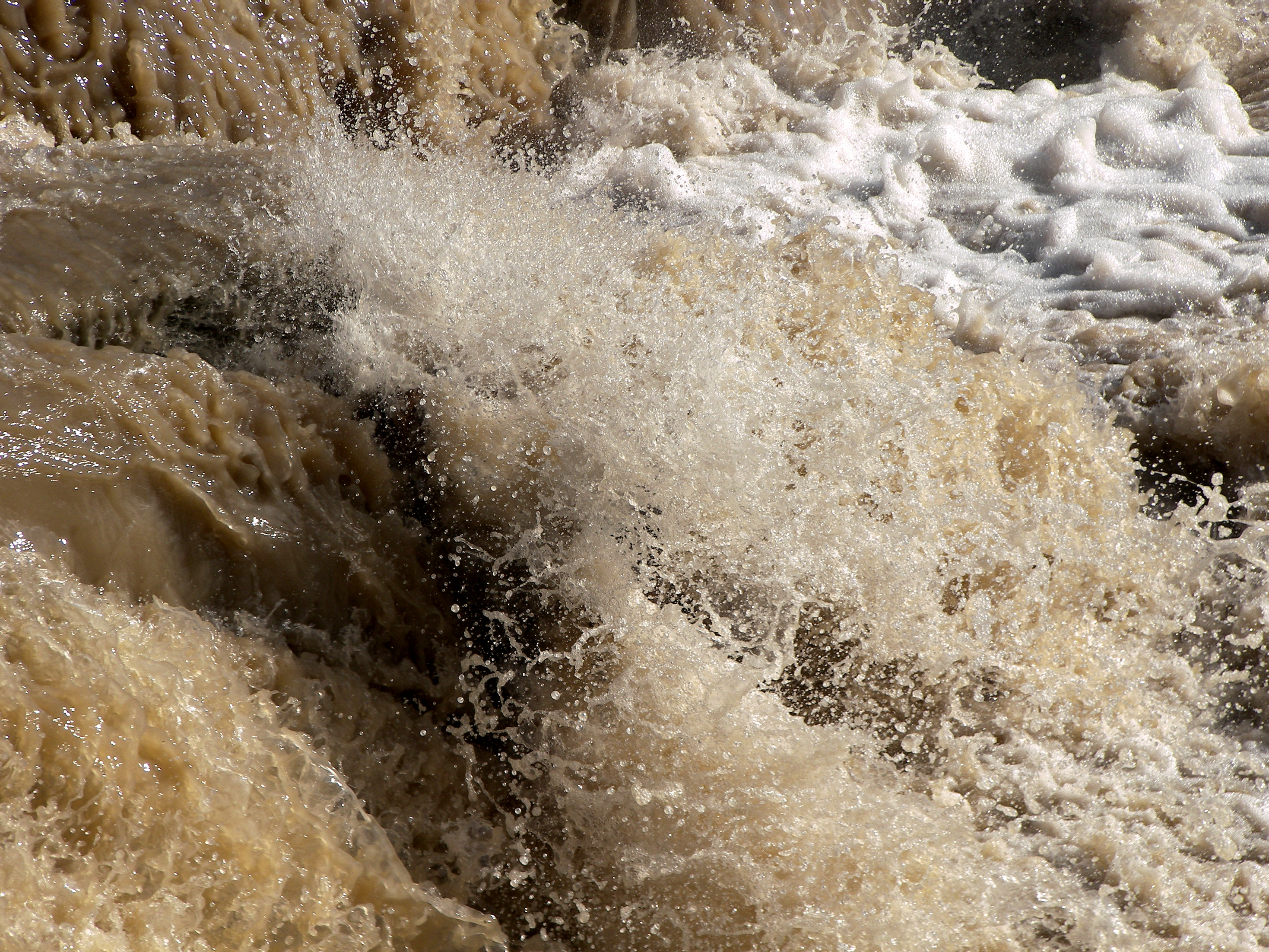 Turbid rain water runoff crashing against a rock at McKinney Falls State Park, Texas, United States.